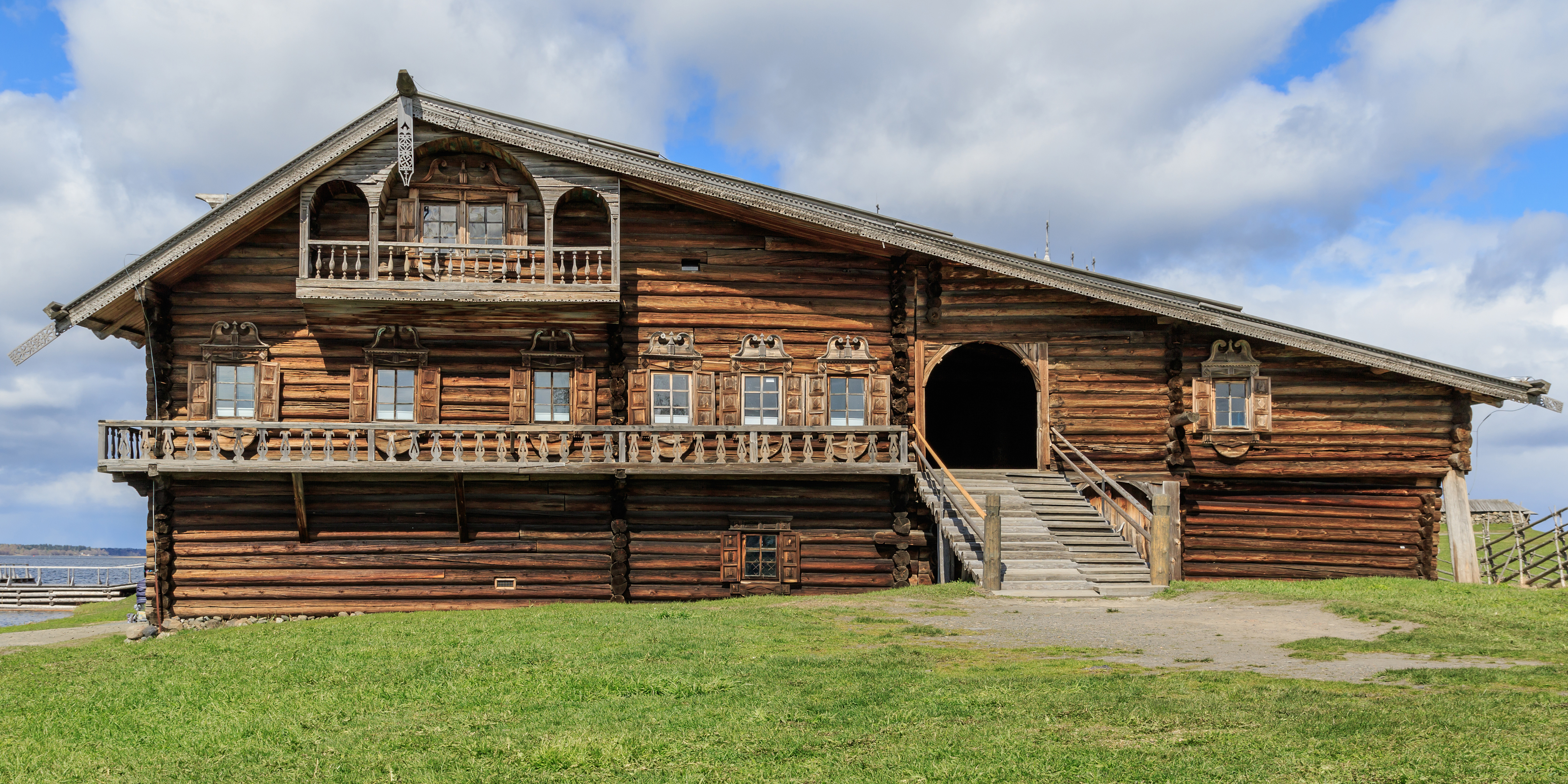 Oshevnev House on Kizhi Island, Republic of Karelia (Russia).